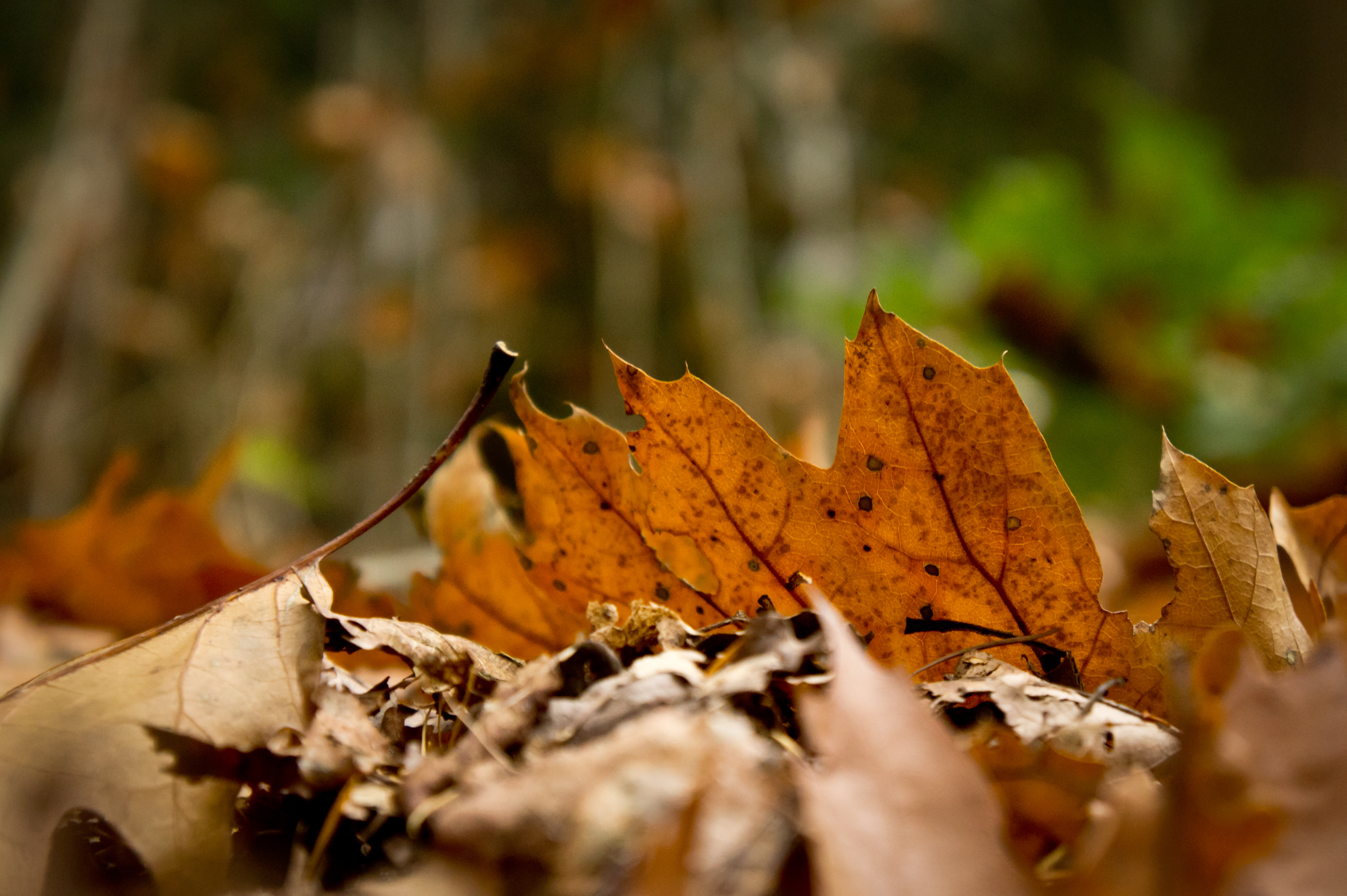 [368/365] Grounding